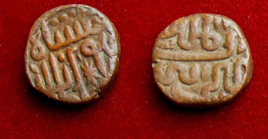 copper coin of Hoshang Shah from my personal collection